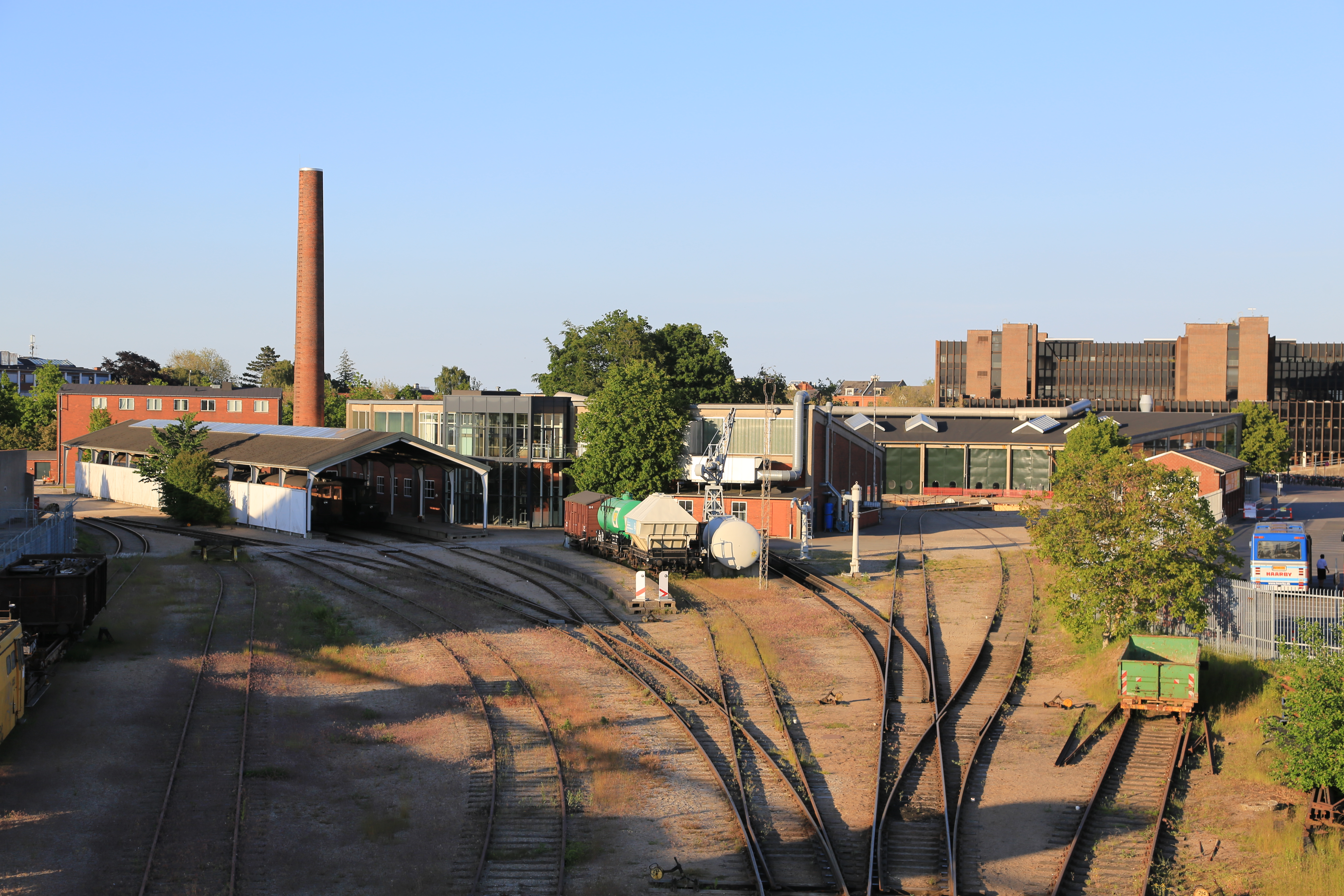 Danish Railway Museum's tracks/yard, located just to the north of Odense railroad station.